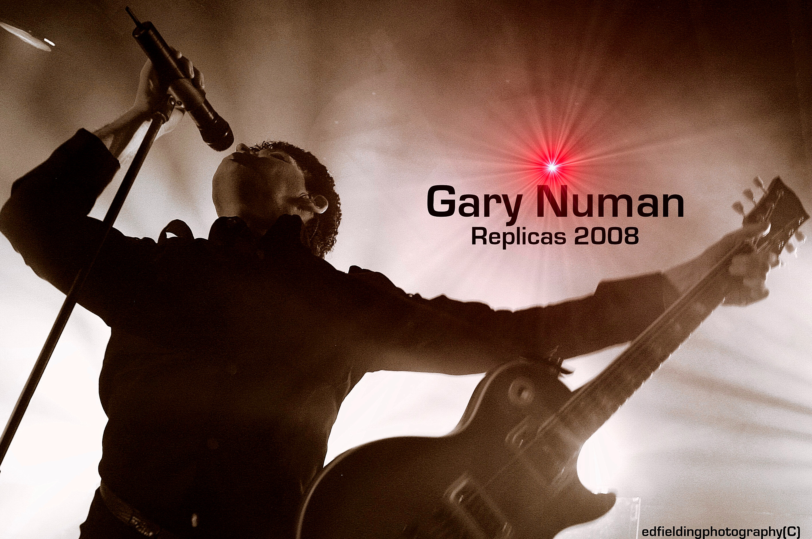 A promotional photograph for Gary Numan's 2008 Replicas Tour.